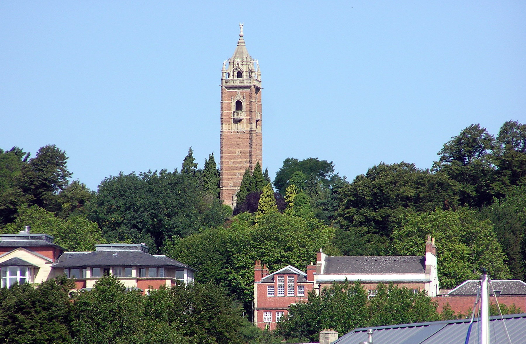 The Cabot Tower, Bristol, England. The 105 foot high (32 metre) Cabot Tower on Brandon Hill is in the city centre of Bristol, England. The tower was opened in 1898 to commemorate the 400th anniversary of explorer John Cabot’s voyage to America in 1497. The tower was built from red sandstone and cream Bath stone. The roman numerals CCCC(400) are engraved on the four sides. The winged figure on top represents Commerce. The tower is free admission. The view includes the leisure and housing complex being built at Canons Marsh (where At-Bristol is situated), the SS Great Britain ship, the Council House and Cathedral, the impressive University Tower and just a glimpse of the Clifton Suspension Bridge.